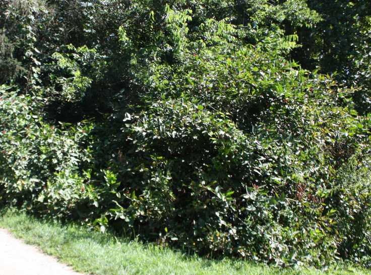 Lednice na Moravě, Czech republic, english park